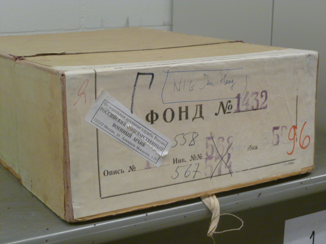 One of the archival boxes from Moscow returning in 2003 to The Hague (the Netherlands), containing in the Second World War stolen archival documents of the Israelite Religious Community in The Hague and the former Jewish orphanage of The Hague